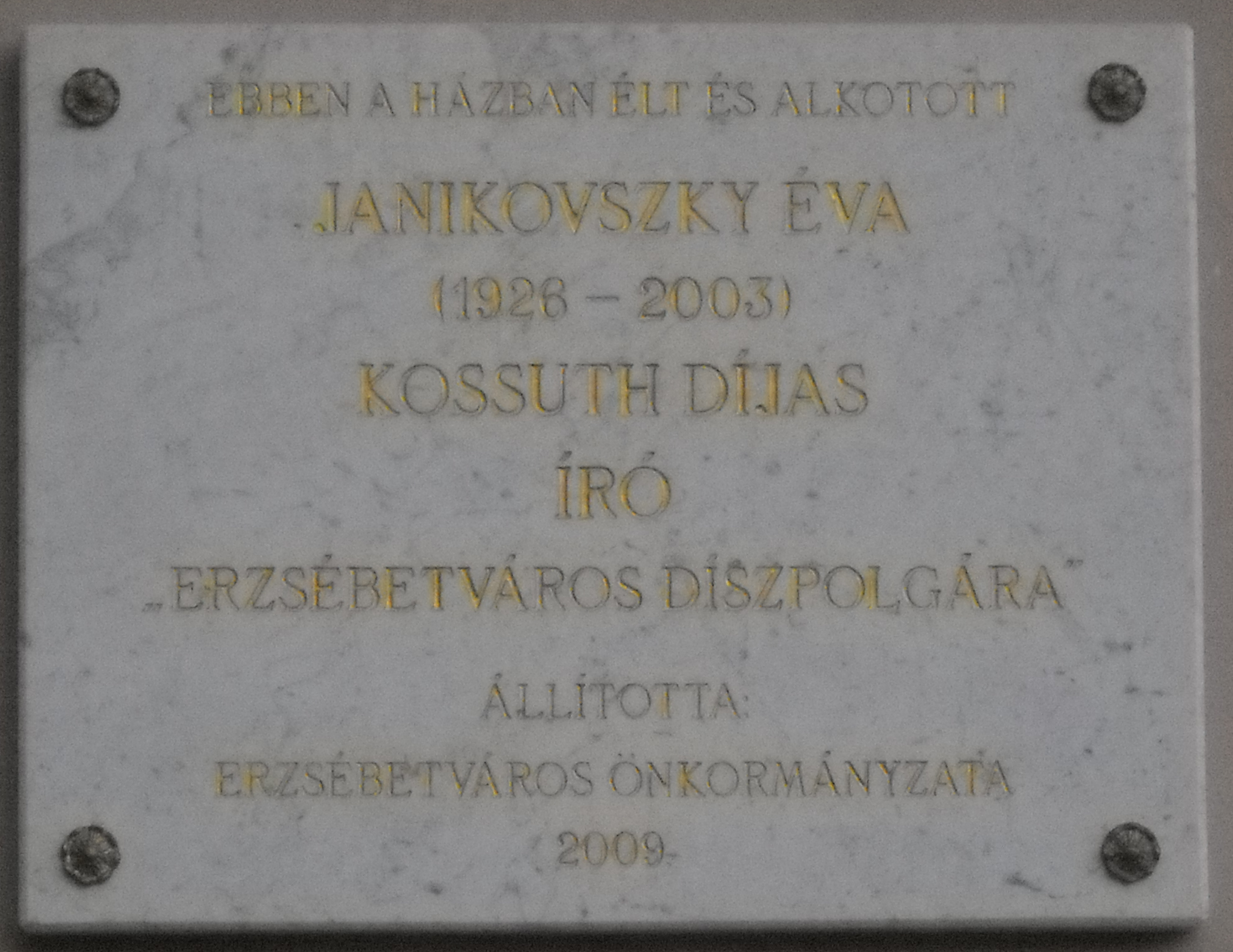 Commemorative plaque of Éva Janikovszky in Budapest District VII, Bajza Street No 8